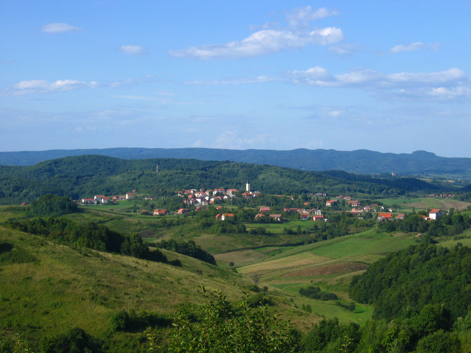 Cetingrad, Croatia, view from Cetin castle